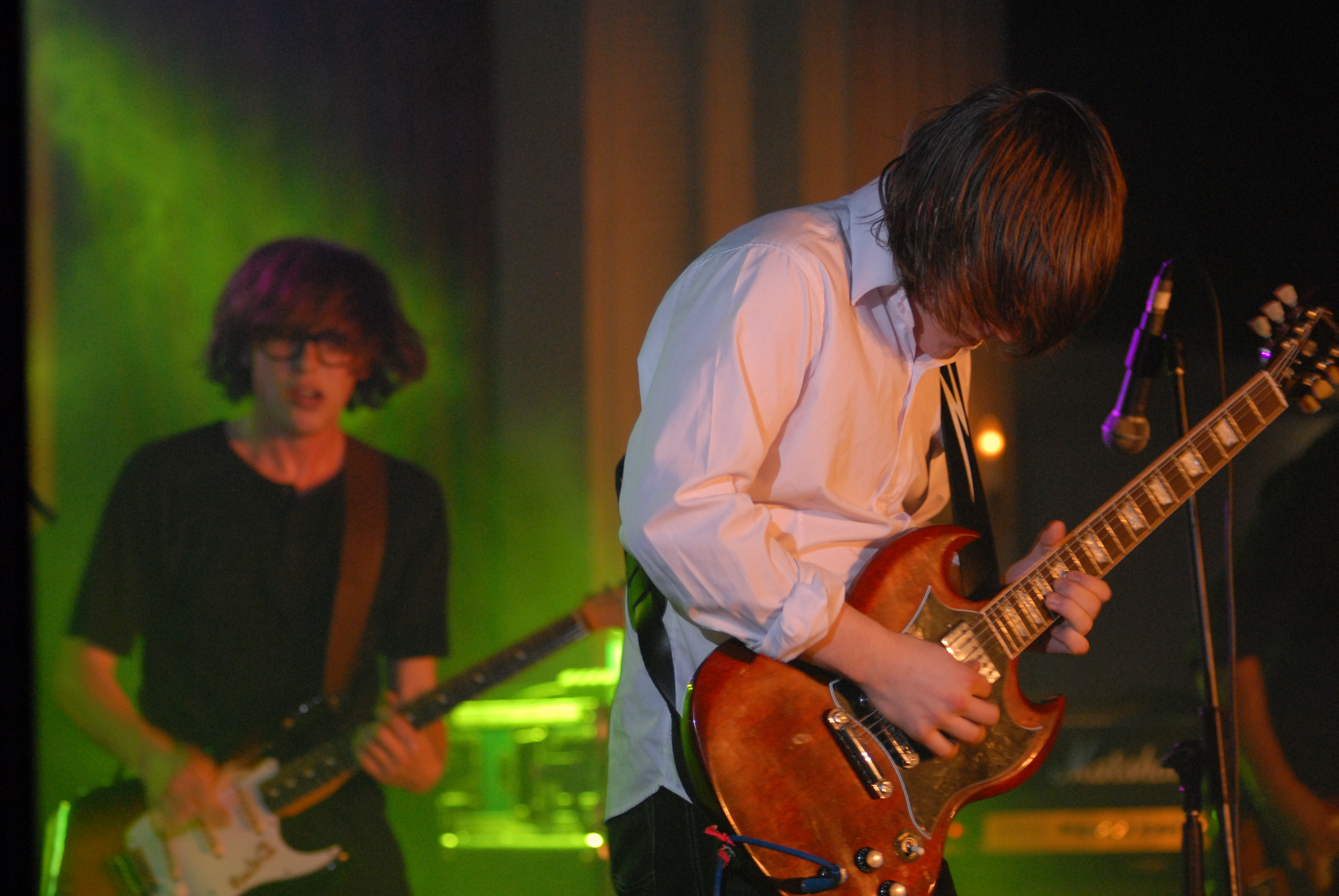 British India performing live at the Regal Ballroom, High Vibes 2007